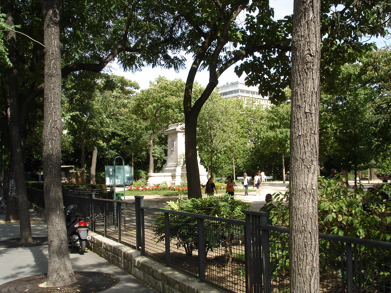 Square Barye - Boulevard Henri IV - Paris